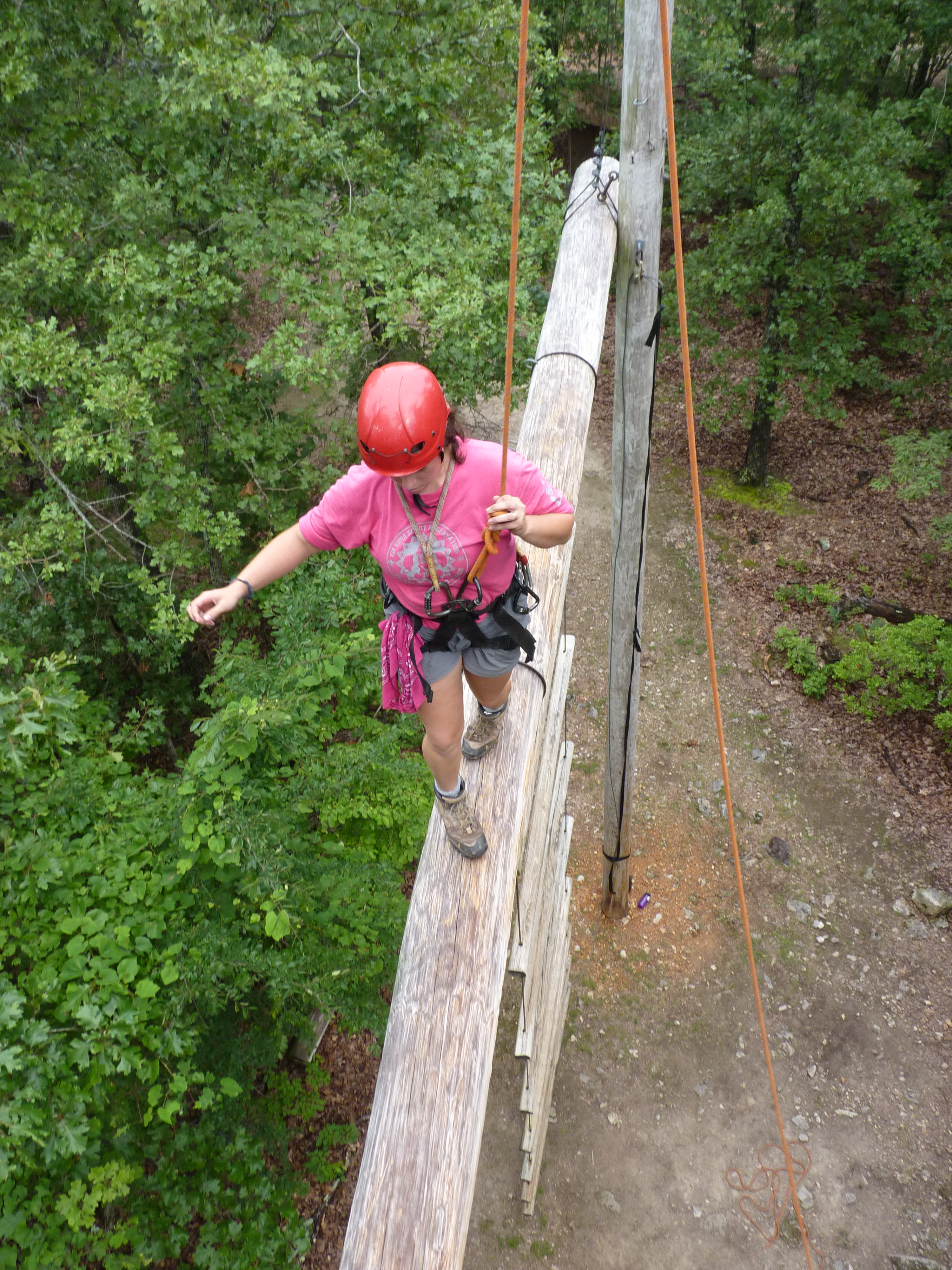 A Venturer traverses a COPE High Ropes course at Kia Kima Scout Reservation.